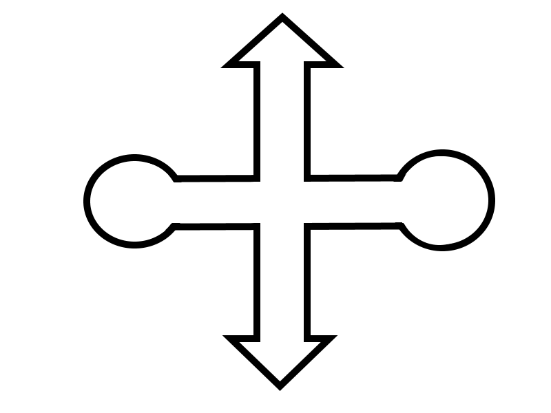 86. Infanterie Division Vehicle Insignia, German Army, World War II